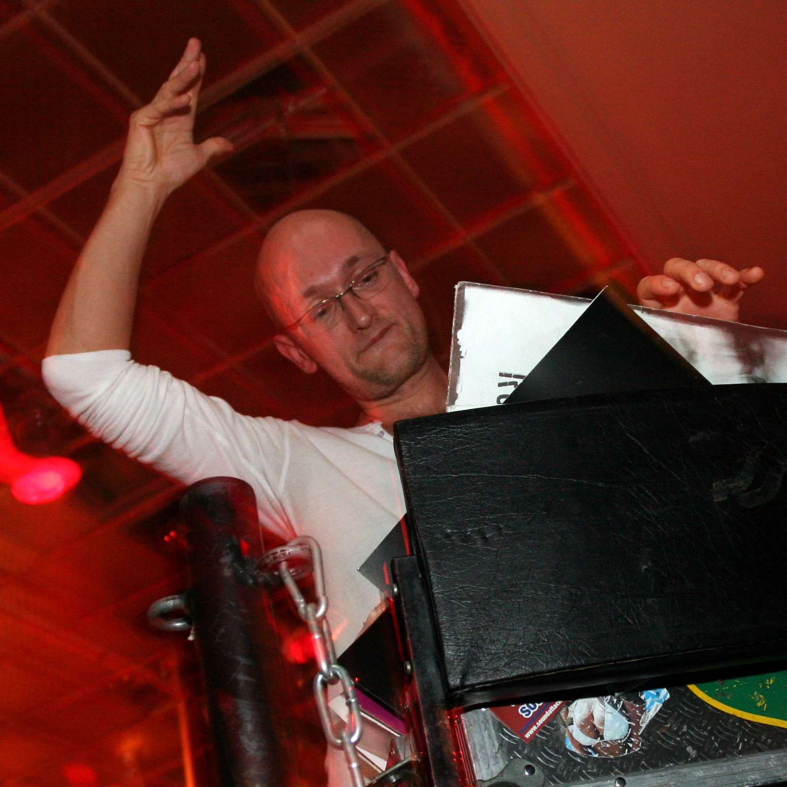 This photo was taken by me during a performance of my brother Tobias Neumann at a club in Munich, Germany.